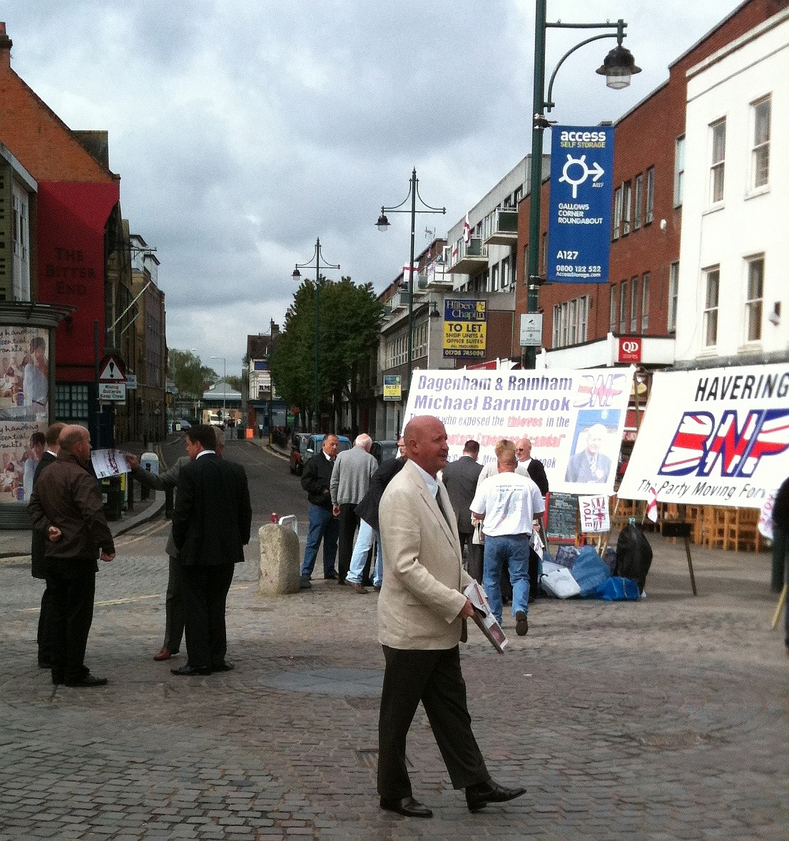 Nick Griffin of the BLP campaigning in the UK